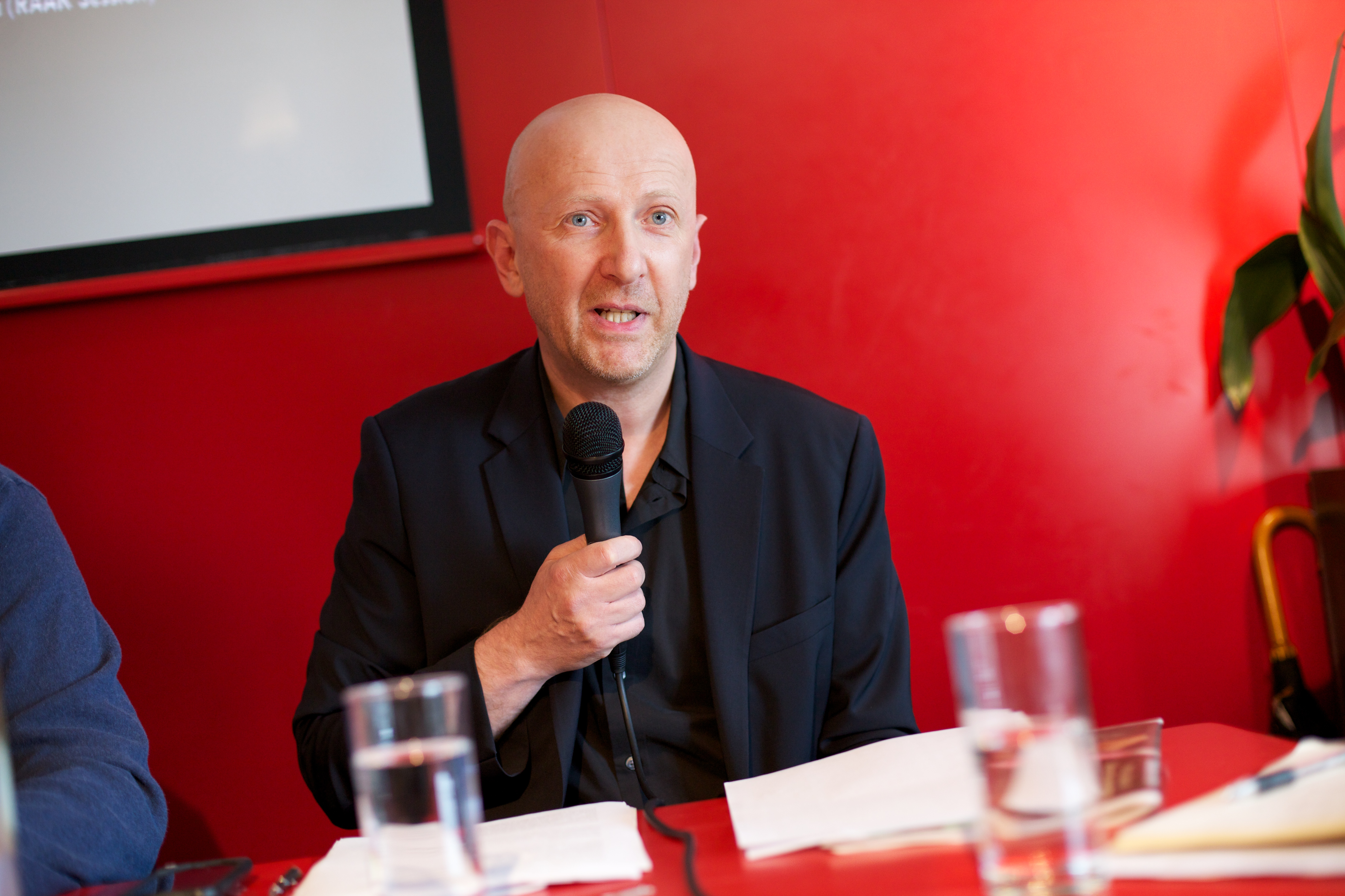 The unbound book conference on reading and publishing in the digital age. Photo: Sebastiaan ter Burg